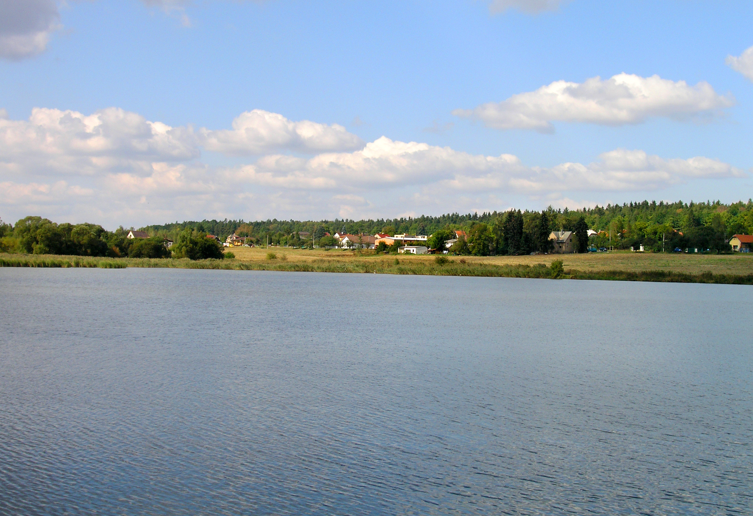 Louňovický pond in Louňovice, Czech Republic